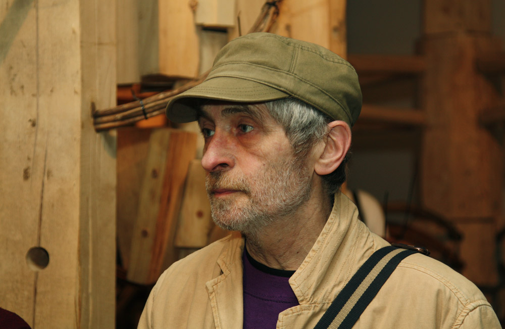 Valery Aizenberg - Russian artist